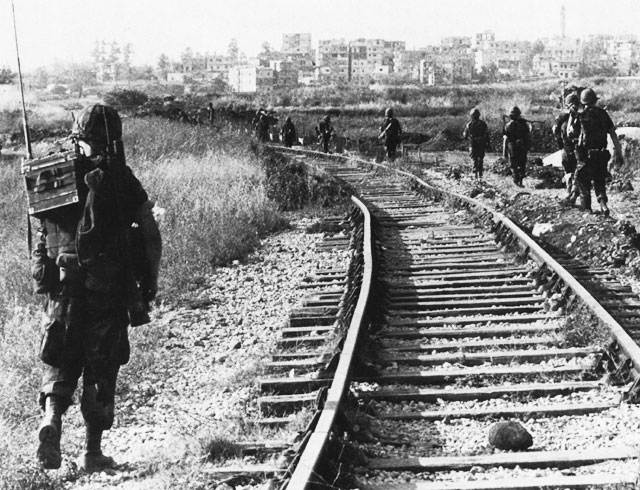 Marines of Company C, BLT 1/8, 24th Marine Amphibious Unit, conduct a foot patrol along the railroad tracks southeast of the company positions in late August 1983.